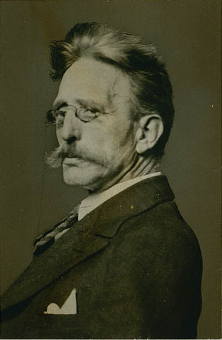 Carl Vilhelm Petersen (1868-1938), Danish art historian and museum director